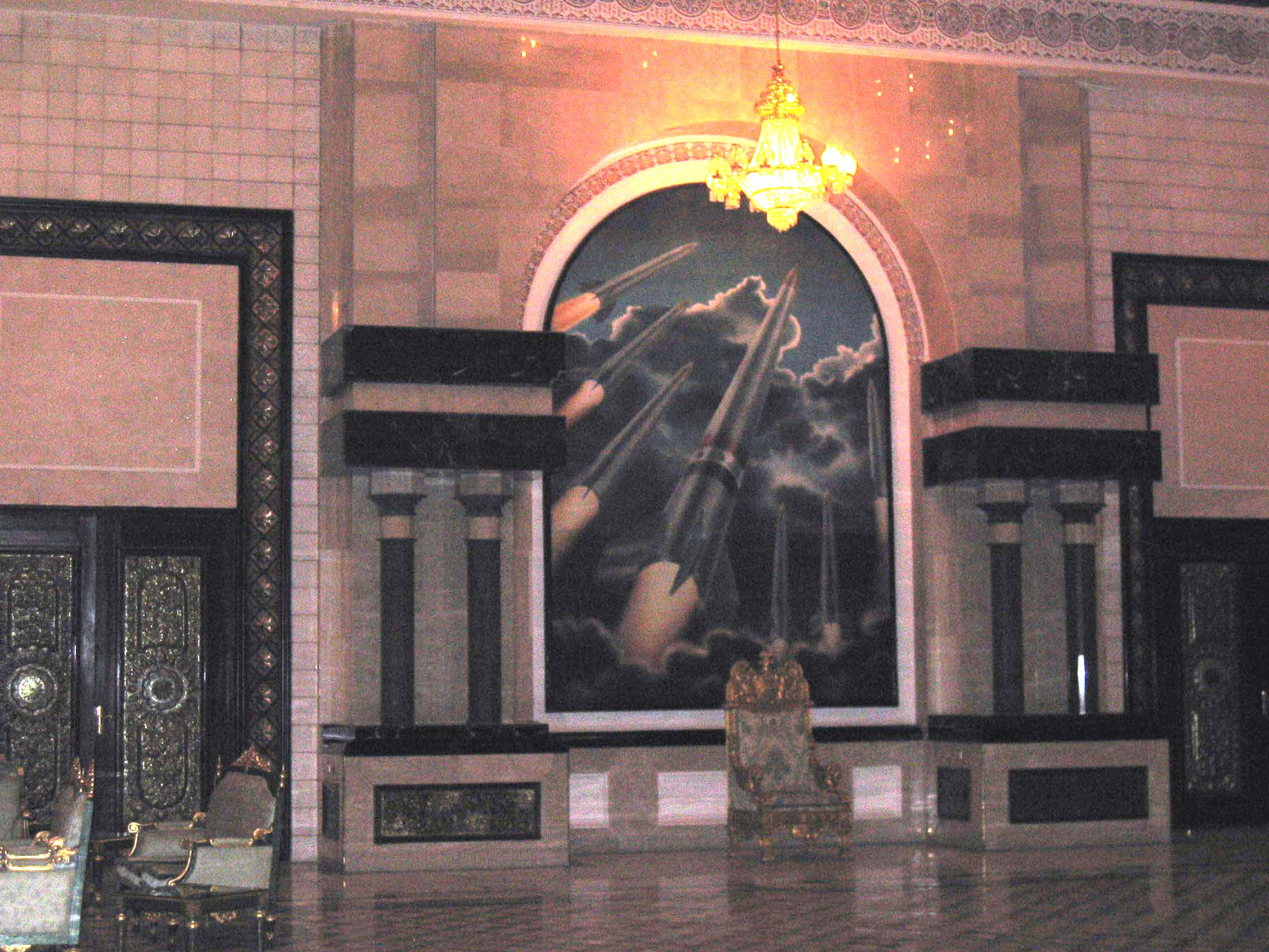 Closeup of the furniture in the "Chapel" inside the Republican Palace in August of 2003. In late 2003 and up until June 2004, this room was used as a co-ed open bay barracks to house new CPA personnel while waiting on trailer space to be made available. This room has since been turned into office space.